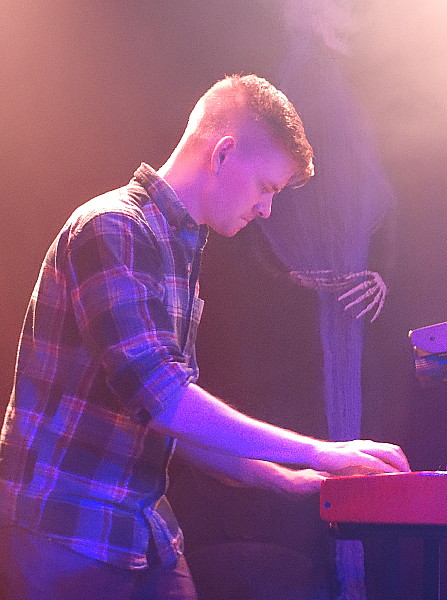 Close up of member of Current Swell playing at The Saint in Asbury Park, NJ. Photo by LHCollins. 04062018.